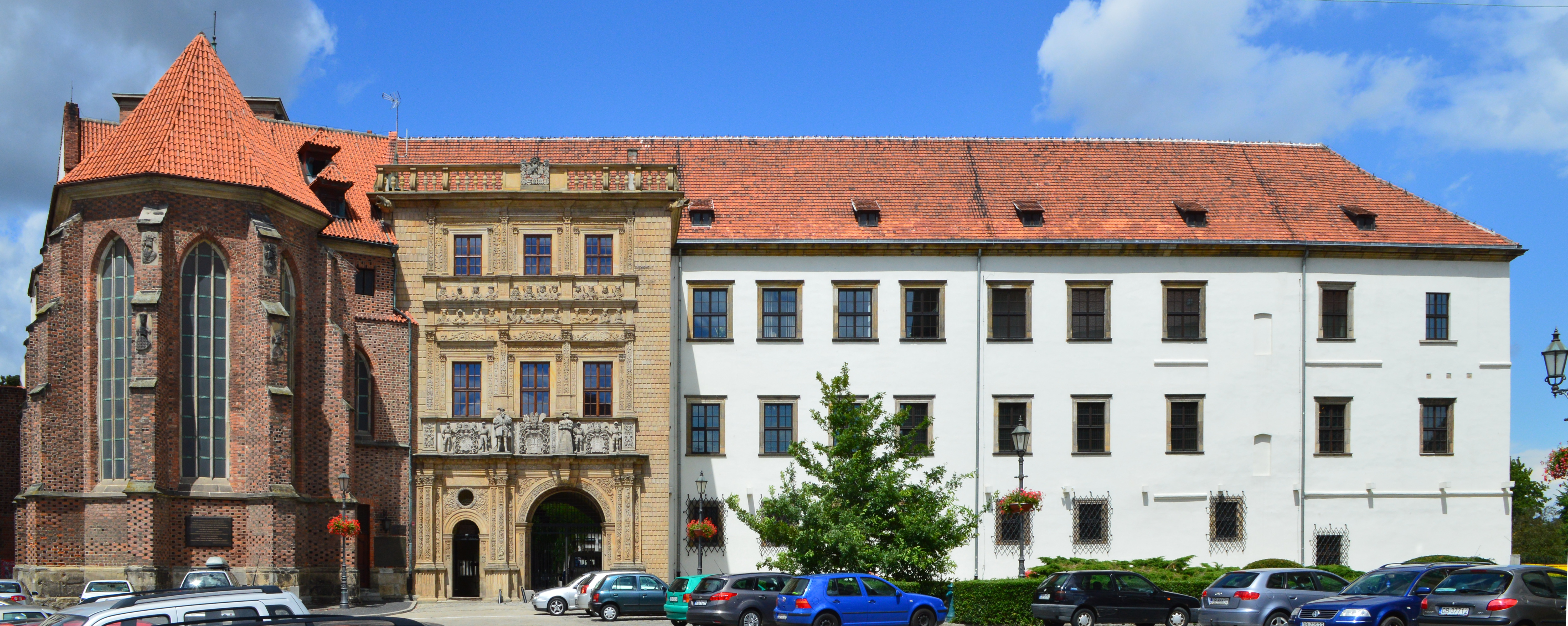 Brzeg is a town in southwestern Poland in the Opole District of Silesia; it is the capital of Brzeg County and is situated on the left bank of the River Oder. The town’s historic Brzeg Castle which has been rebuilt is also known as “The Castle of The Silesian Piasts” and “The Silesian Wawel”.